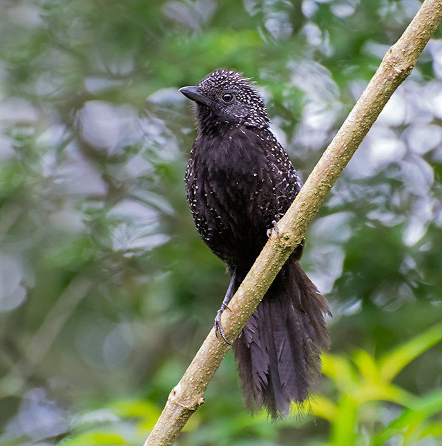 The Large-tailed Antshrike (Mackenziaena leachii) is a species of bird in the Thamnophilidae family.